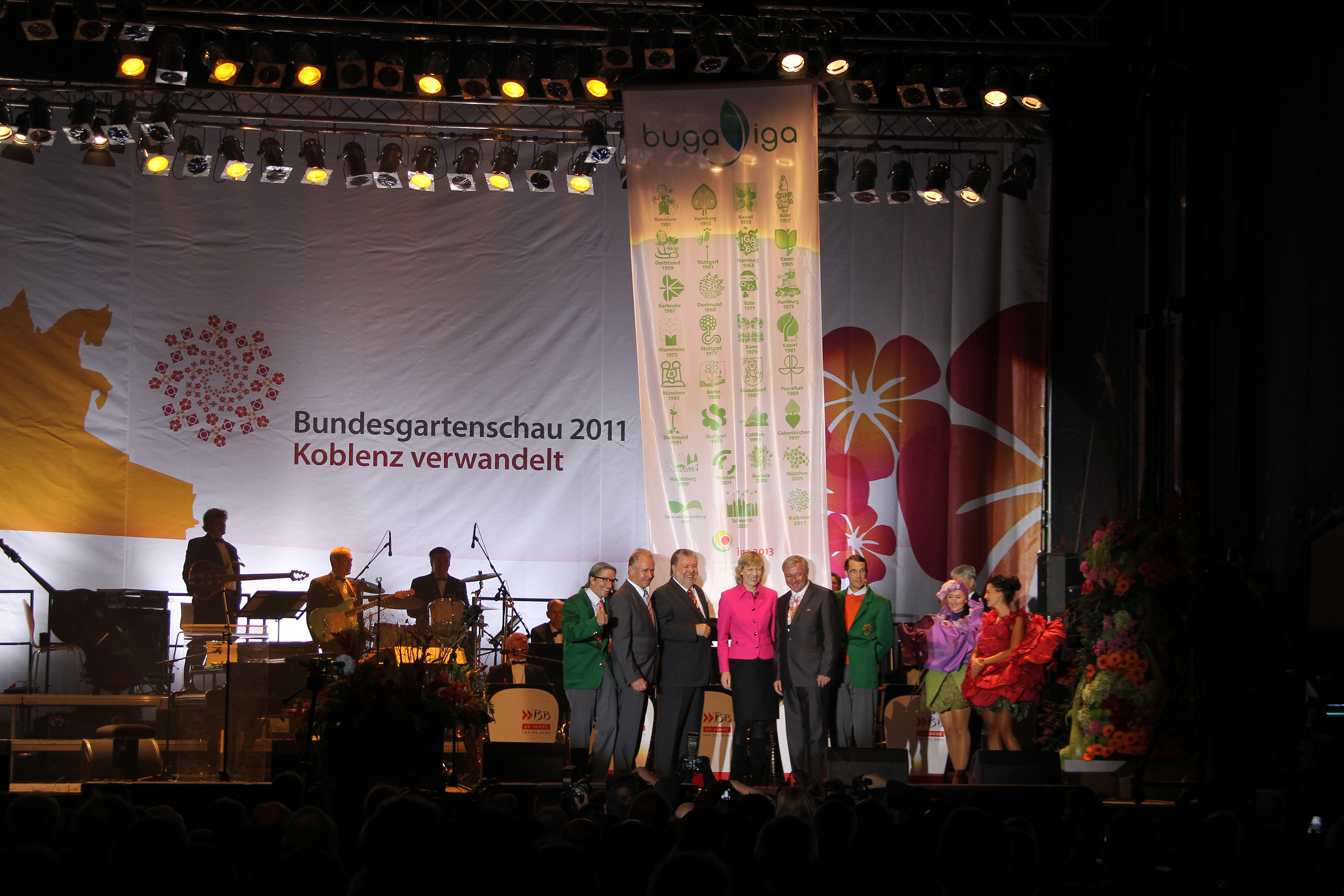 Federal Horticultural Show 2011 in Koblenz